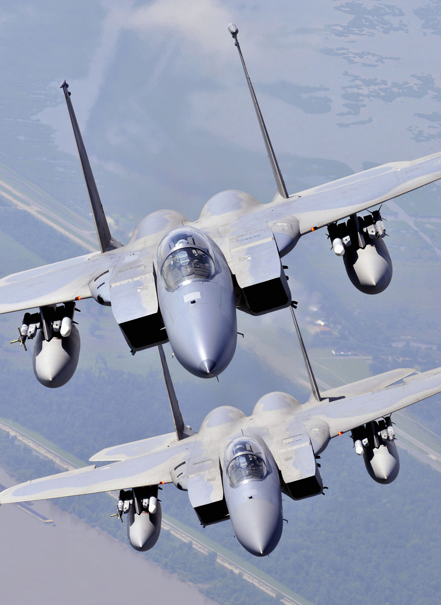 F-15C Eagles assigned to the Louisiana Air National Guard's 159th Fighter Wing fly over southern Louisiana wetlands July 11 during an exercise. The unit is stationed on Naval Air Station Joint Reserve Base, New Orleans.